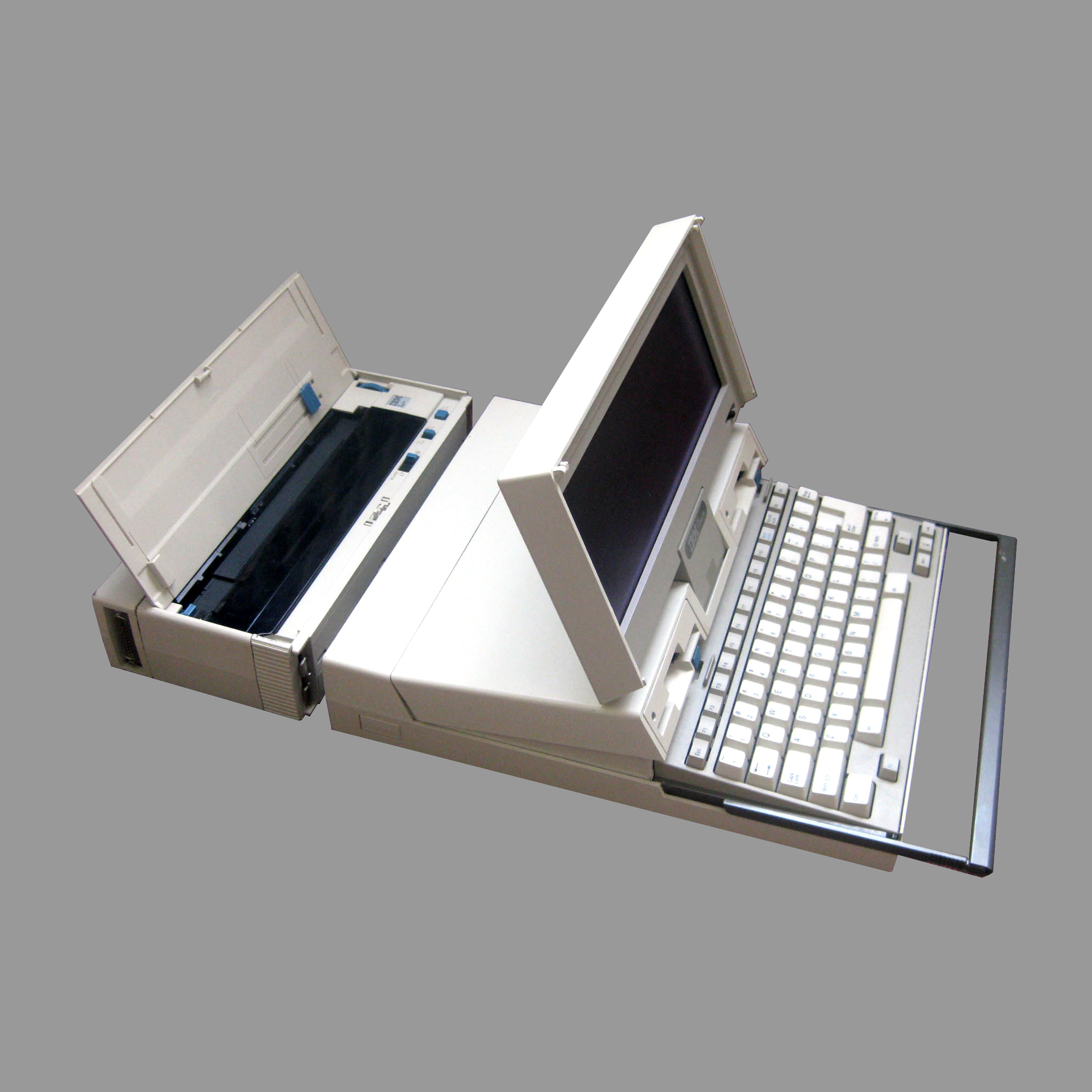 Notebook 5140 designed by Richard Sapper for IBM, with printer